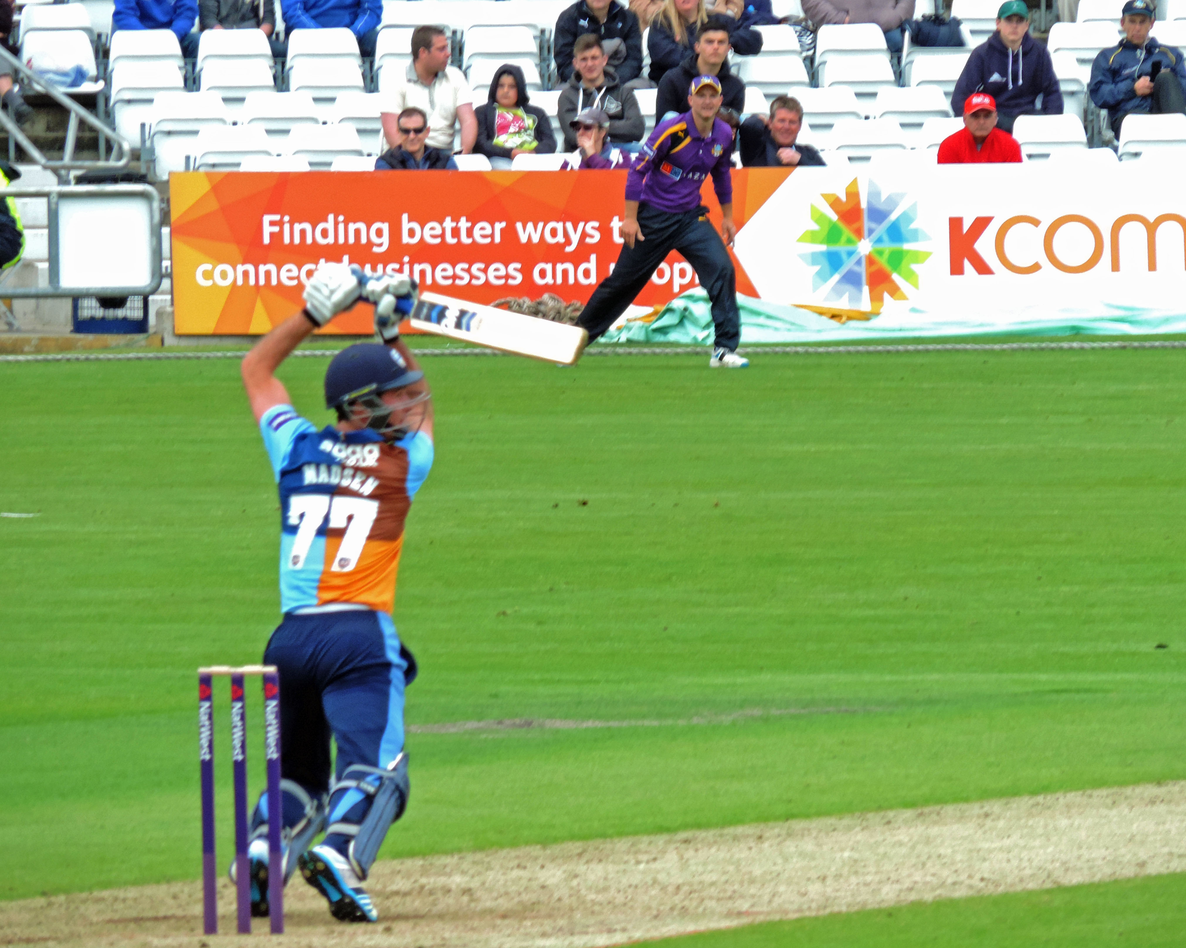 Some pictures from the Twenty20 match between Yorkshire and Derbyshire at Headingley last week; not a great result for me, with Derbyshire losing out by some distance. This is Derbyshire's captain Wayne Madsen (and Alex Lees on the boundary).